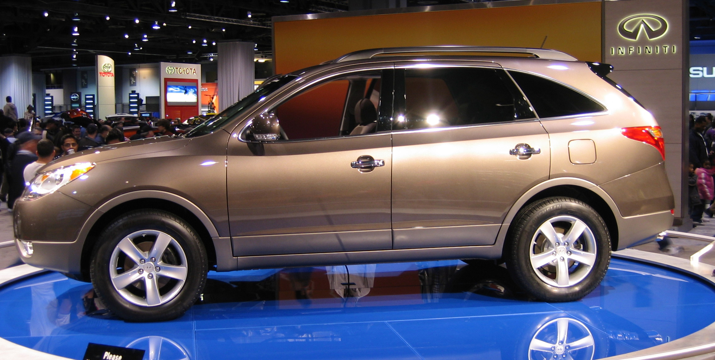 Hyundai Veracruz at the 2007 Washington Auto Show